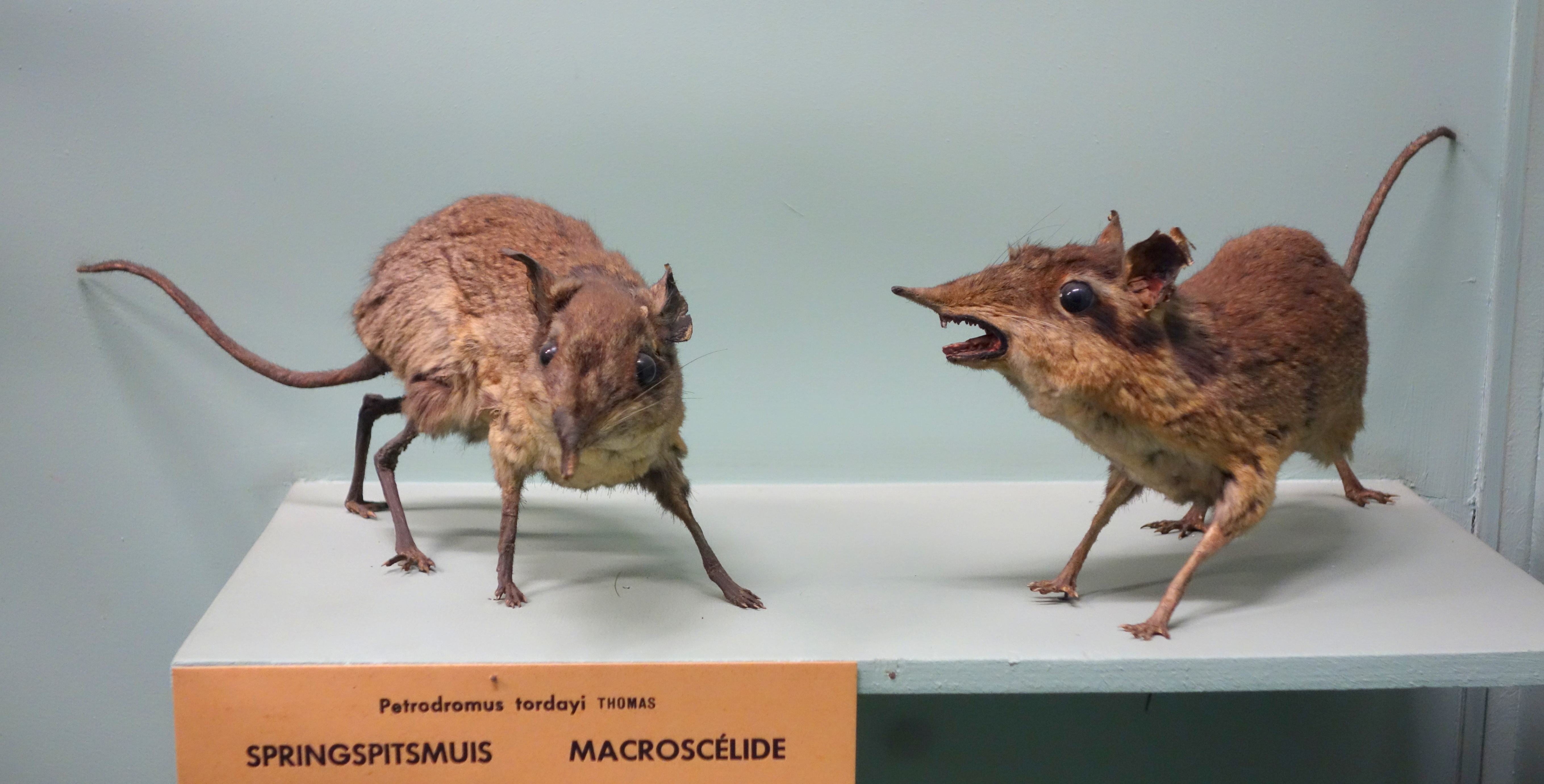 Exhibit in the Royal Museum for Central Africa, Tervuren, Belgium.